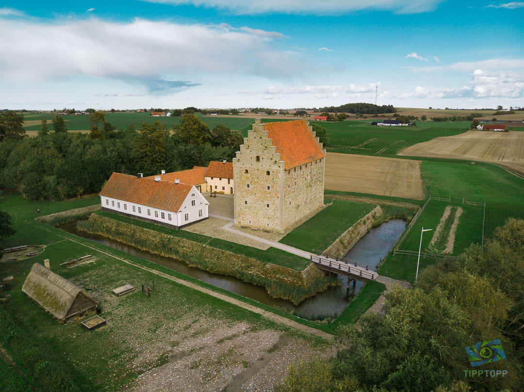 Glimmingehus